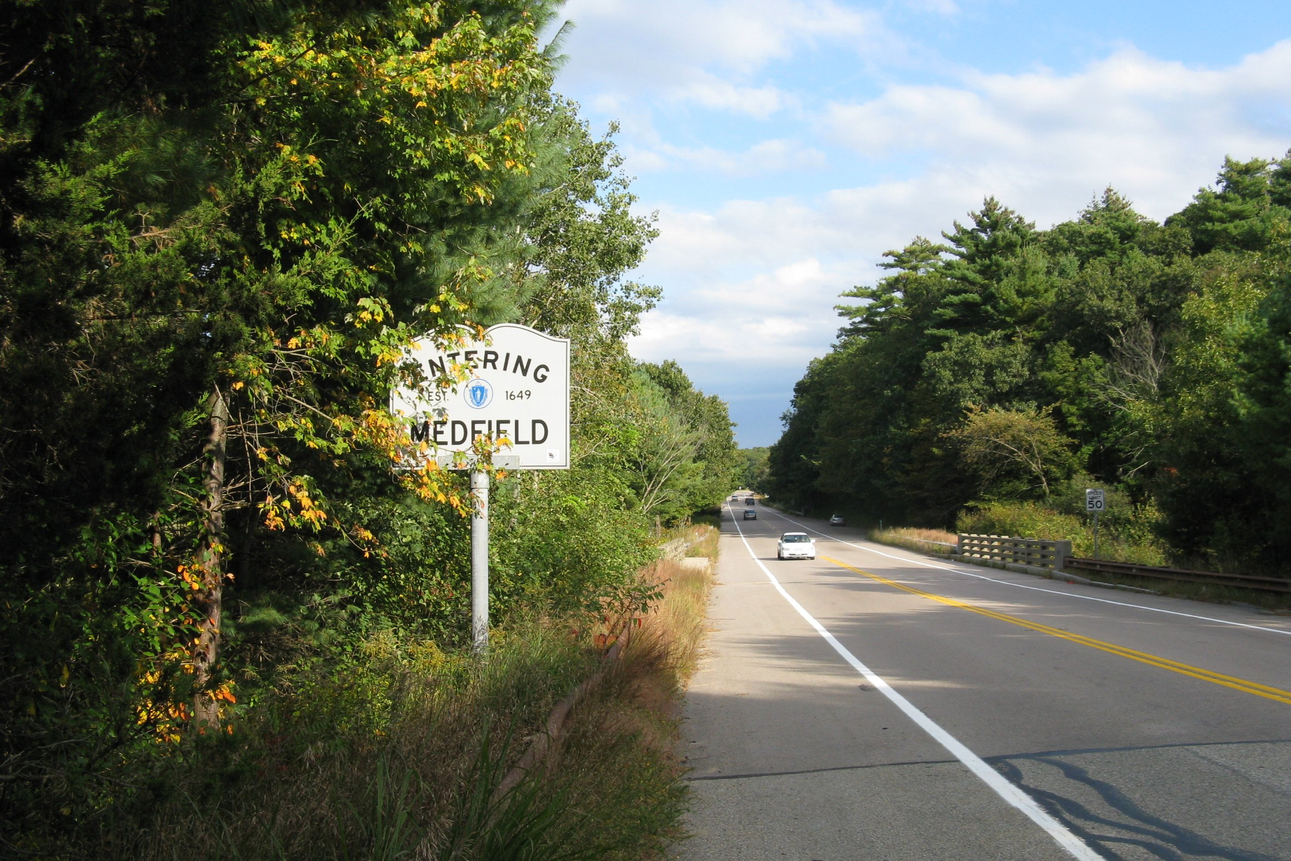 Massachusetts Route 27 southbound entering Medfield Massachusetts